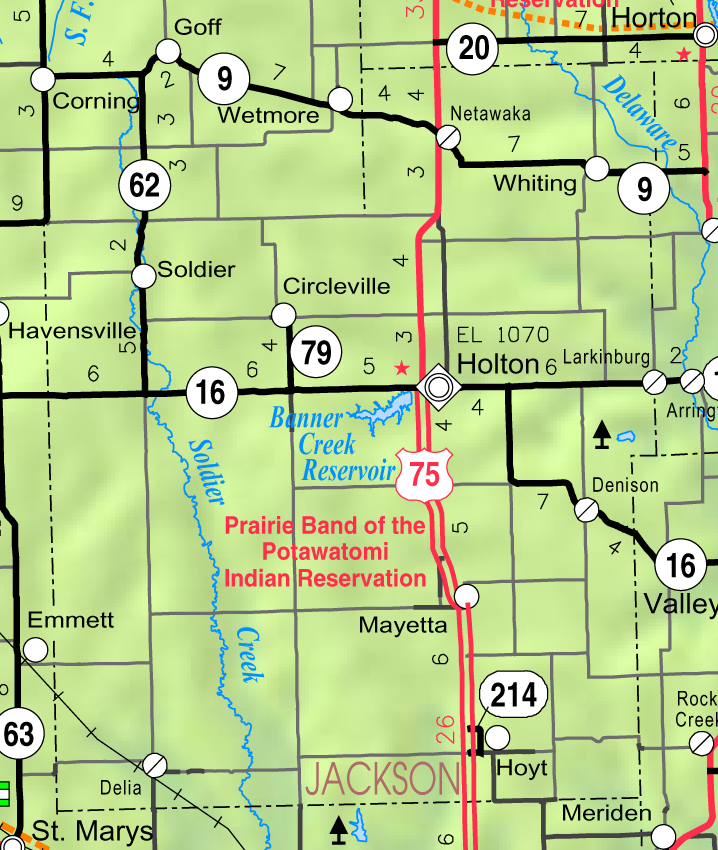 This map of Jackson County, Kansas, USA, is copied at a resolution of 300 pixels/inch from the original PDF file.